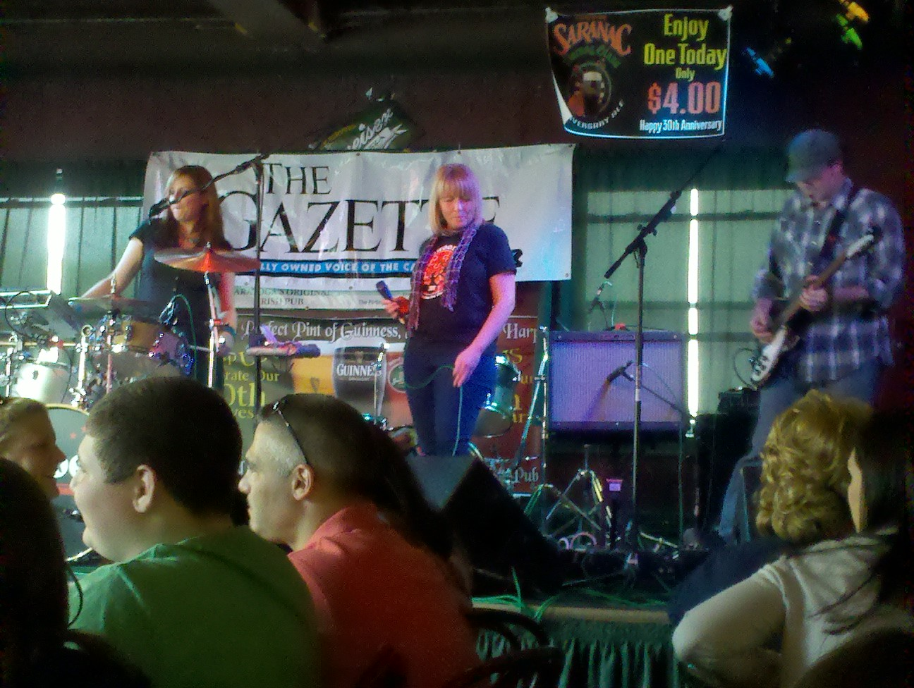 Singer-songwriter Erin Harkes singing with Albany, NY-based band Sirsy at WILDWOODstock — a benefit for the Wildwood School (Schenectady, NY) for autistic children — at The Parting Glass in Saratoga Springs, NY.